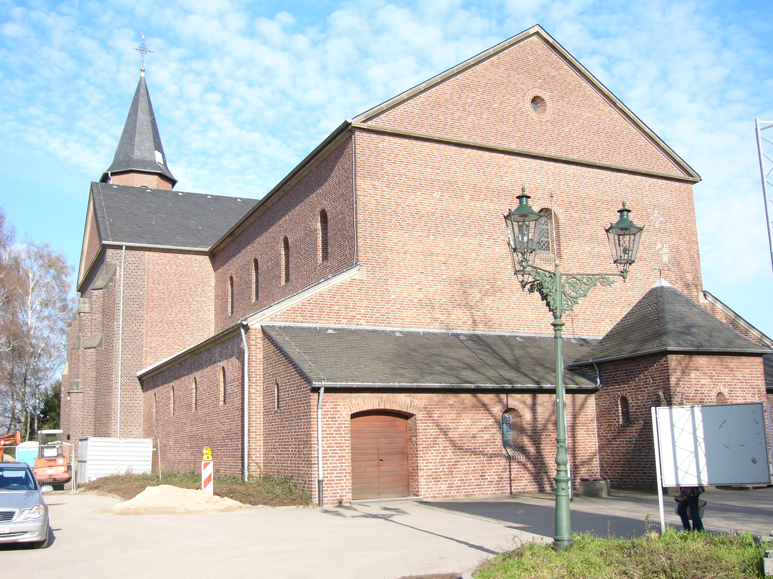 Roman-Cath. Church of Düsseldorf-Flehe